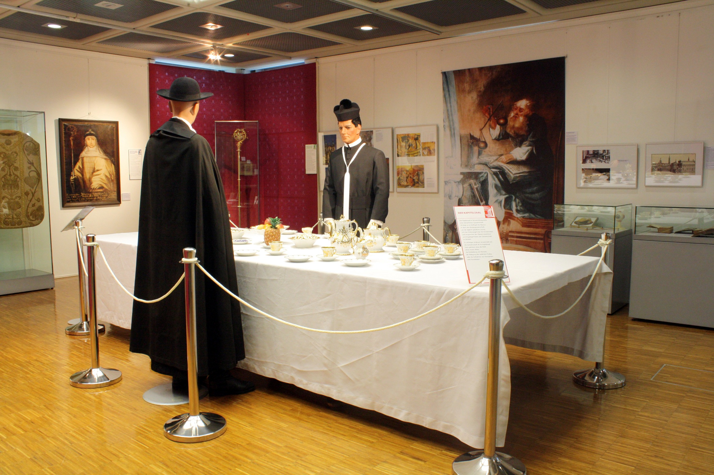 Exhibition of the Upper Silesia State Museum about the secularization in Silesia (2010)